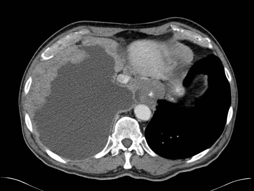 Malignant Mesothelioma, CT axial